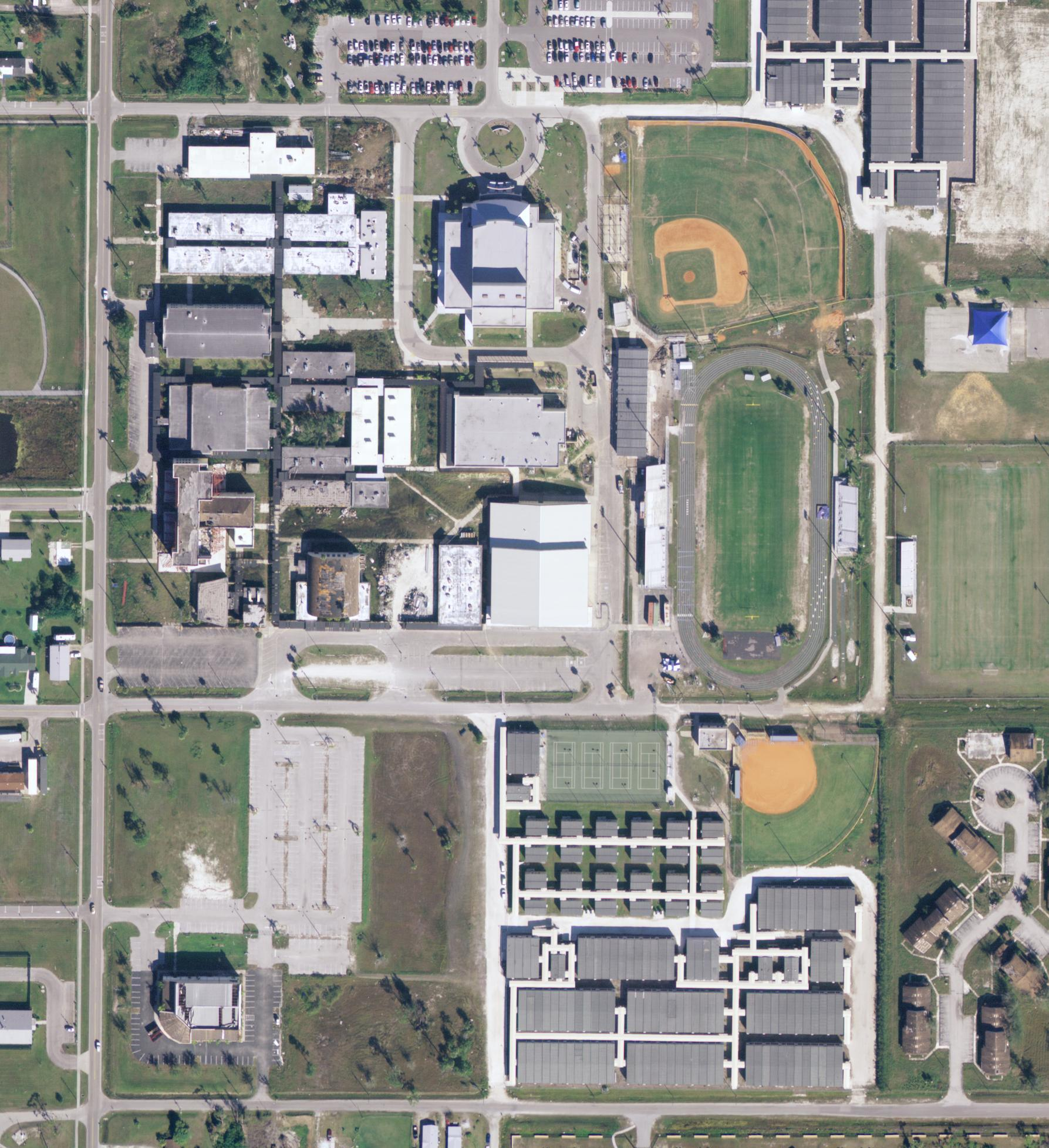 Aerial image of Charlotte High School (Punta Gorda, Florida)